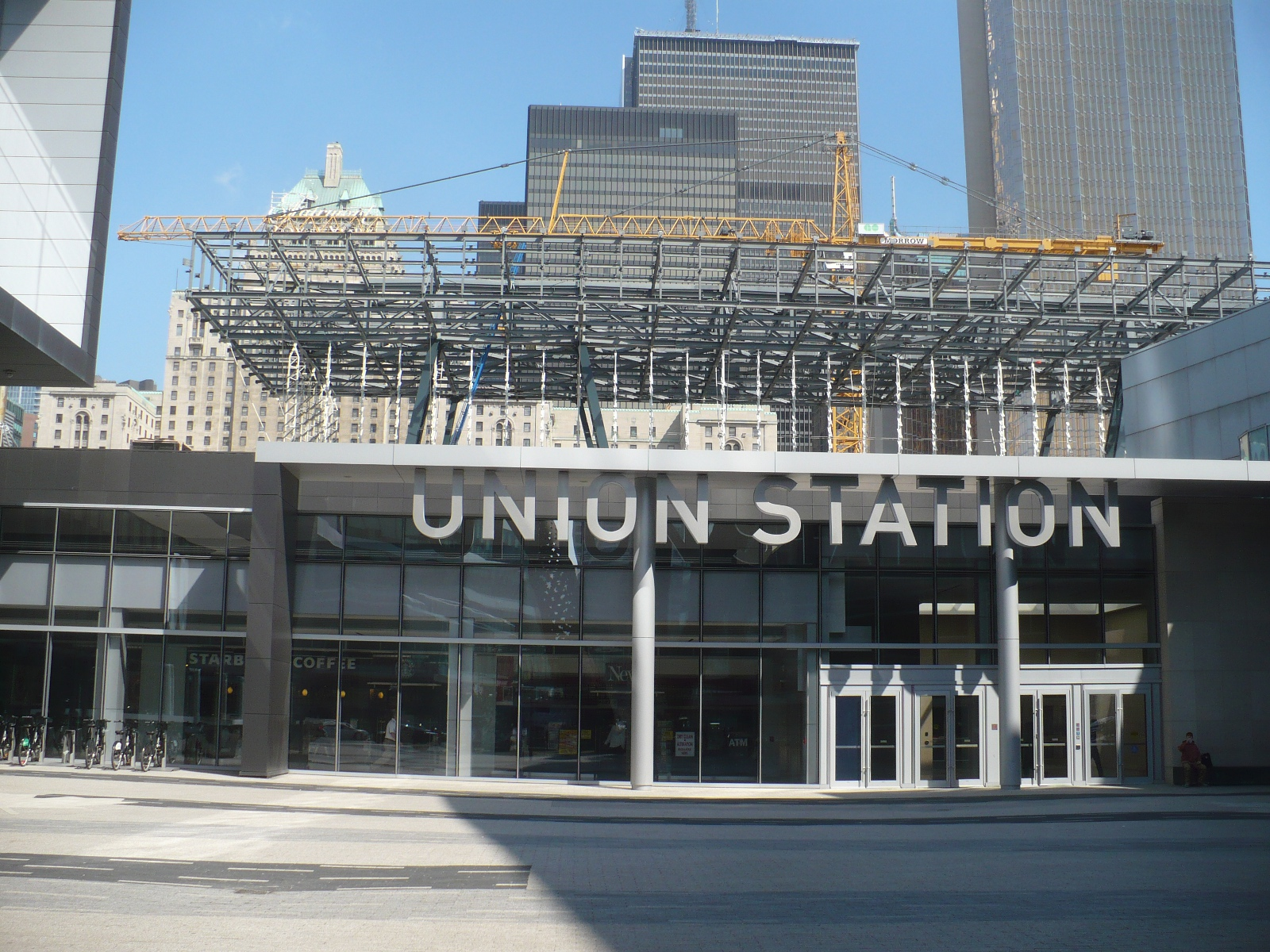 Union Station Toronto